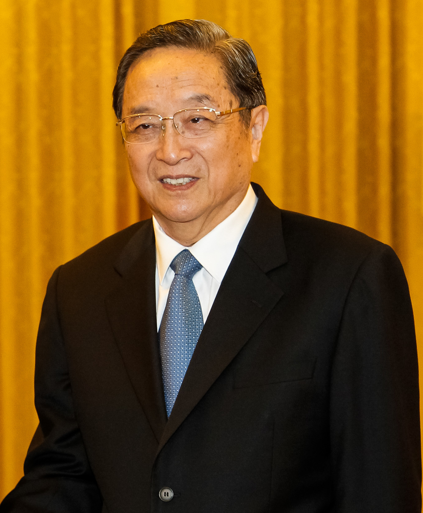 Yu Zhengsheng, Chairman of the Chinese People's Political Consultative Conference, meets with Michel Temer, president of Brazil on September 1, 2017. 中文（中国大陆）: 2017年9月1日，时任全国政协主席俞正声会见到访的巴西总统米歇尔·特梅尔并亲切握手。